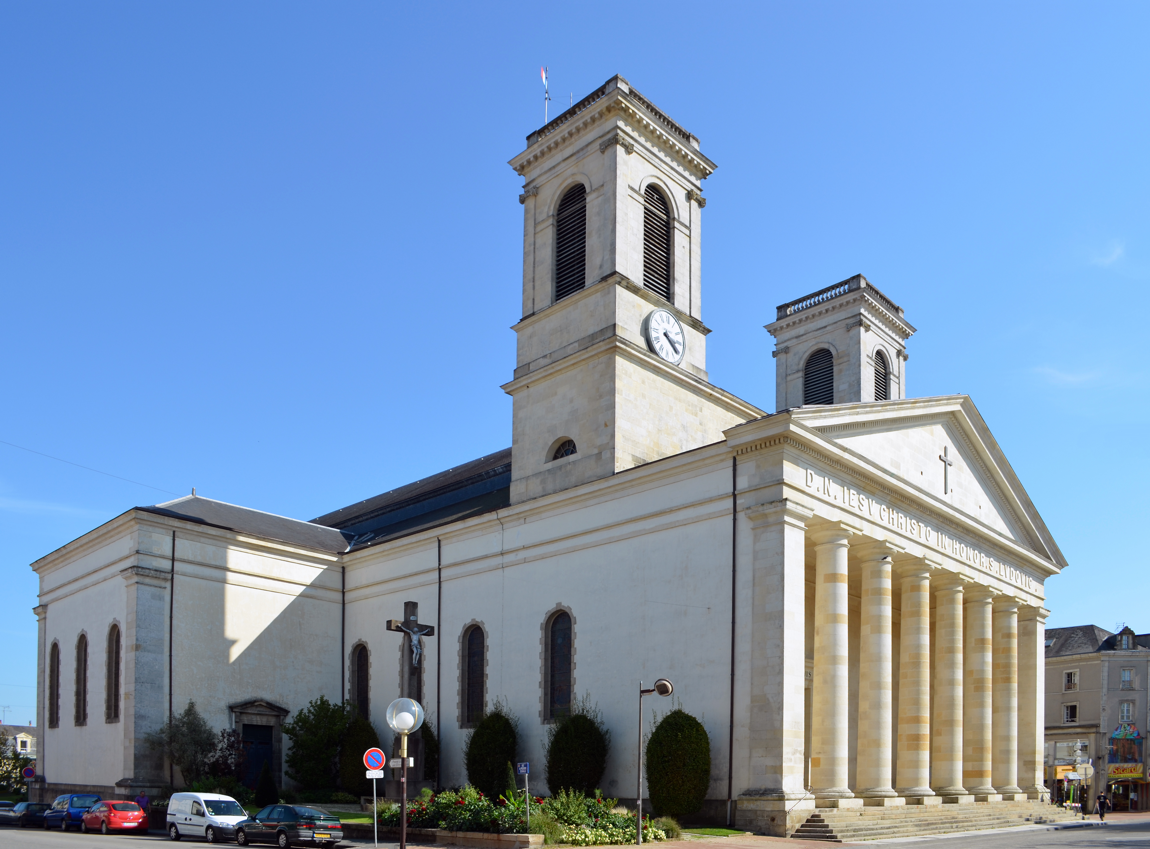 Saint-Louis church, built from 1813 to 1830 - La Roche-sur-Yon .